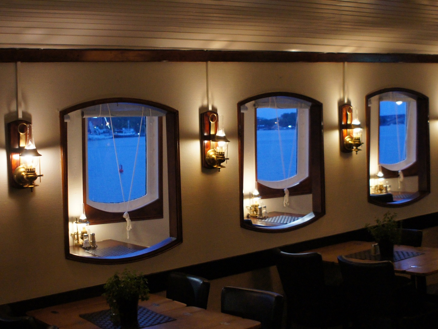 Lady Hutton, restaurant, interior